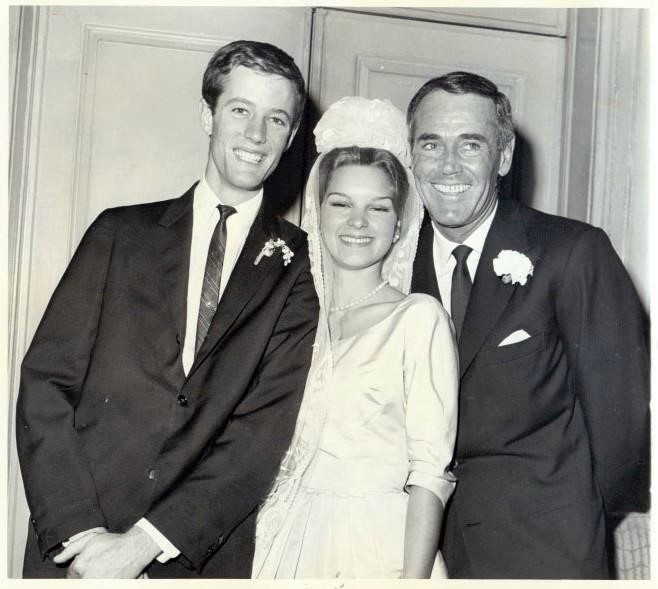 Vintage candid photograph from 1961 of Henry Fonda with son Peter Fonda and bride Susan Brewer at their wedding. From the Lester Glassner Collection